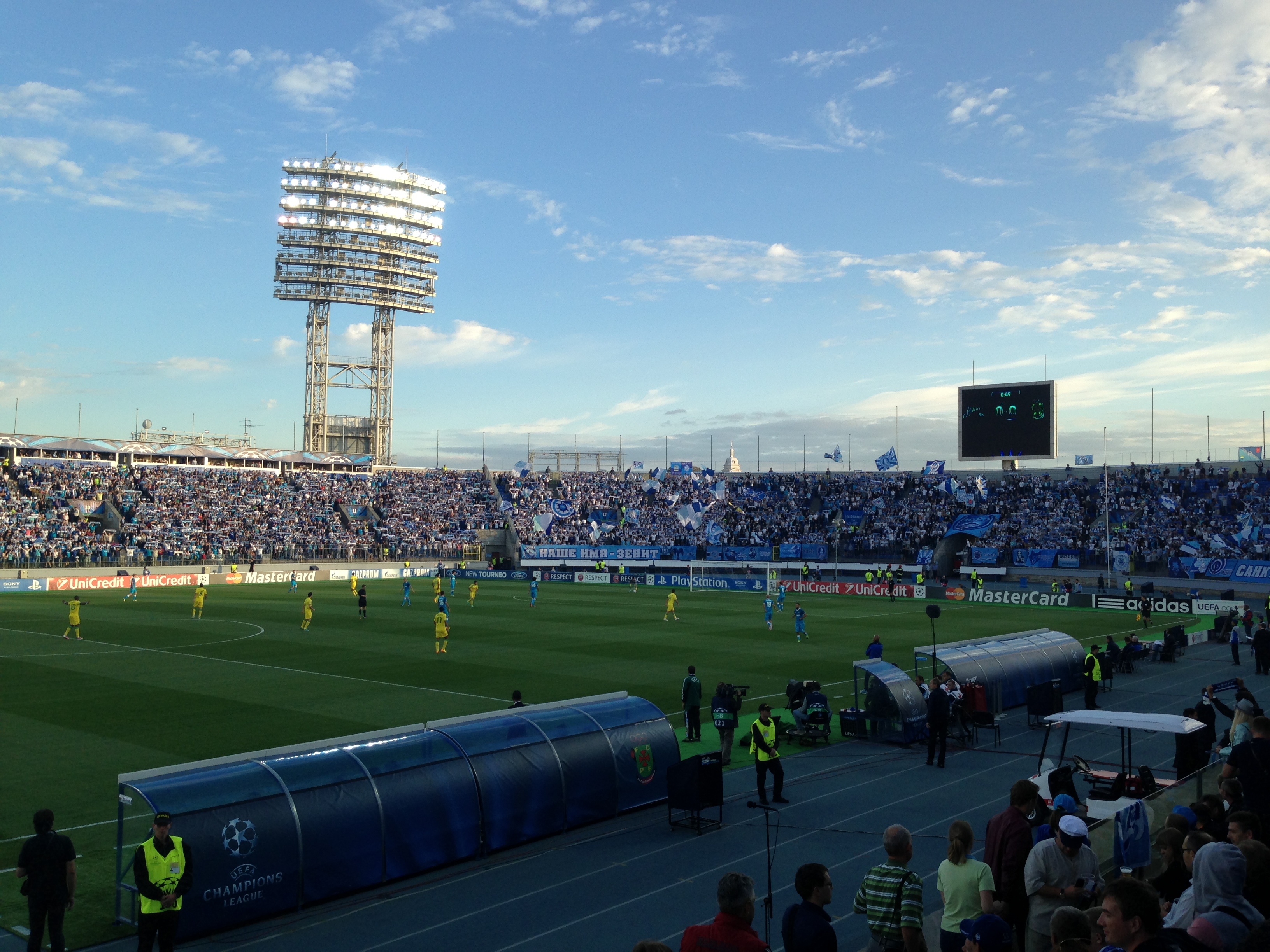 Zenit-Paços de Ferreira, Champions League 2013/2014